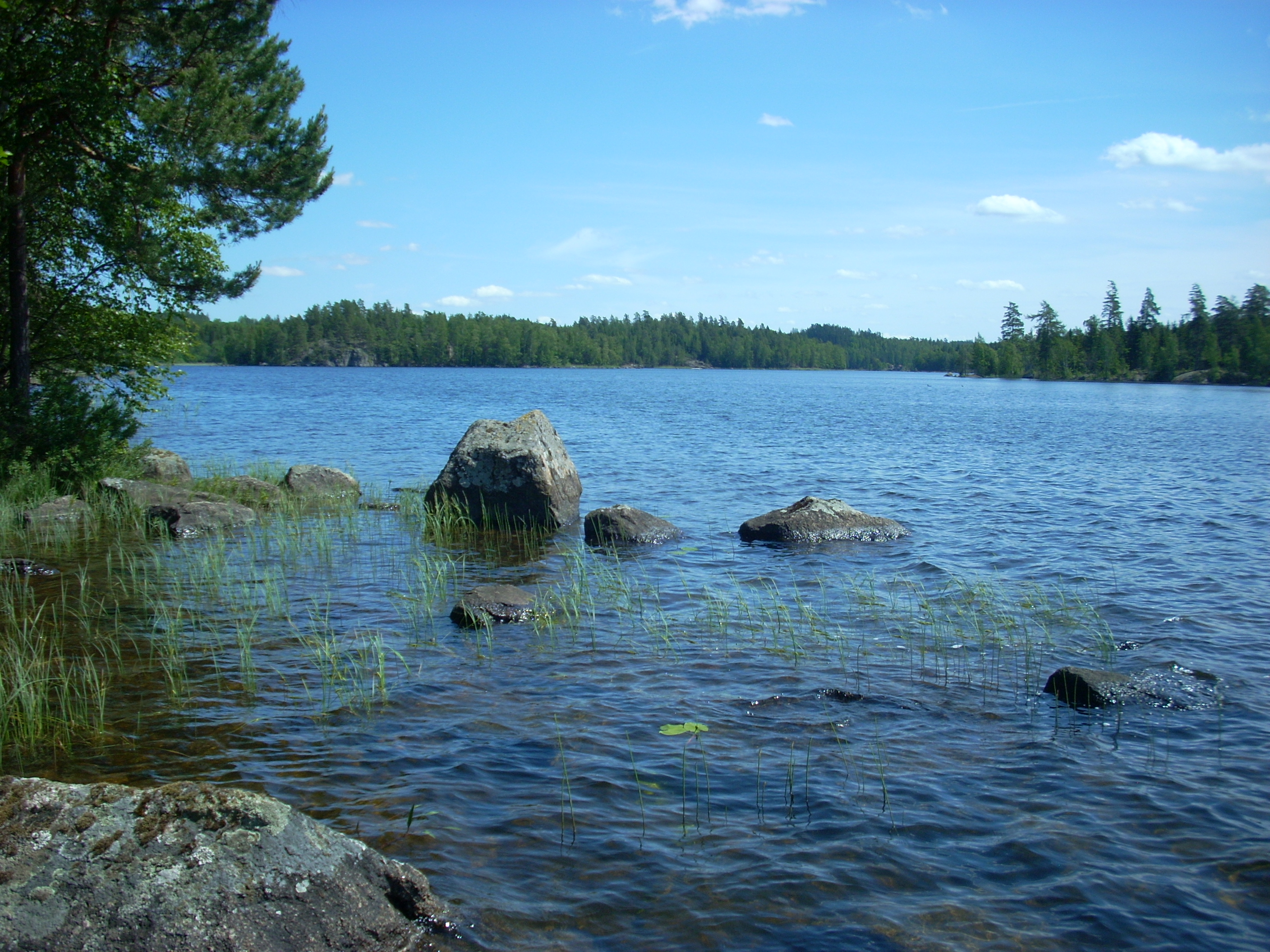 Drögen lake in Kinda, Sweden. In the background the hills make up a fault scarp.